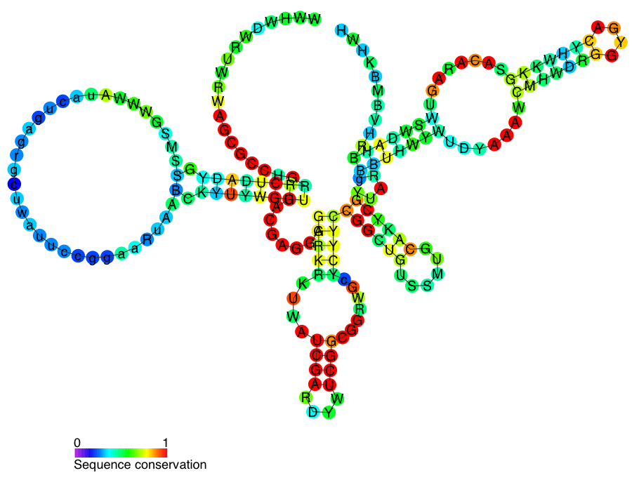 A secondary structure and sequence conservation diagram for the glmS ribozyme